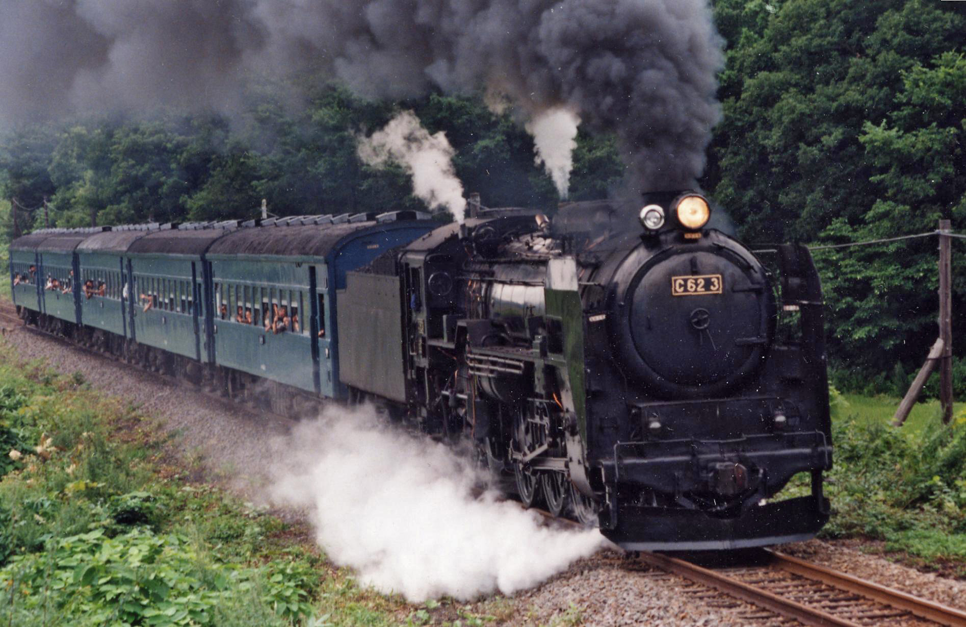 Description : An Express train 'Niseko' bound for Otaru, Hokkaido, Japan. An steam locomotive type C62 (C623) and five old type passenger cars. The C62 type locomotive was the biggest and largest steam locomotive for passenger train in Japan. Photographer : NekoJaNekoJa, myself. Scanning was done by myself, too. Date : Aug. 1994 Location : Niseko, Hokkaido, Japan. Camera : Asahi-Pentax SFXn, Hexagon 28-80mm. Permission : I agree with GFDL for this material.